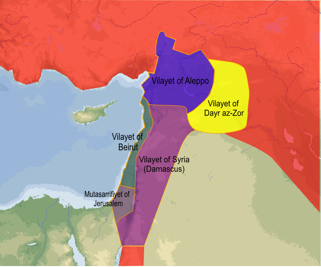 a map of Ottoman Syria in 1918 based on these maps [1],[2]